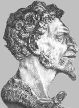 Attila the Hun statue.